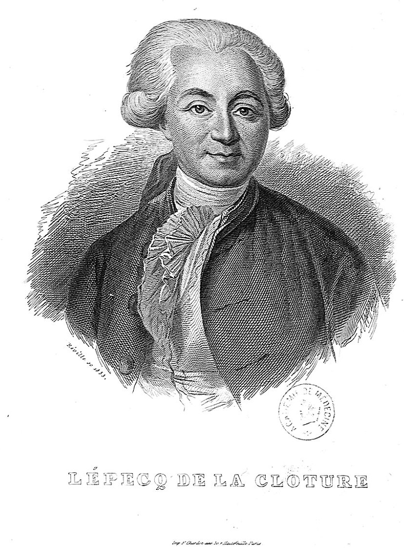 Louis Lepecq de la Cloture (1736-1804)